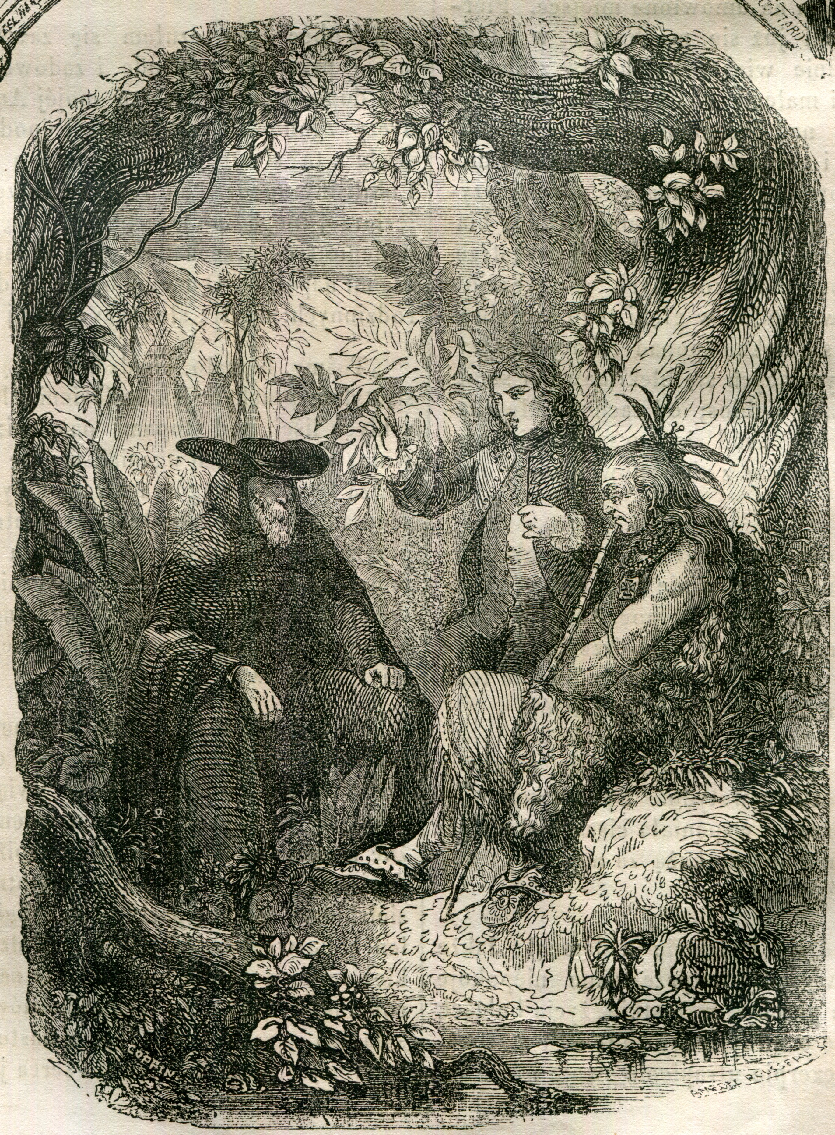 Illustration to the story "Rene" by R. de Chateaubriand